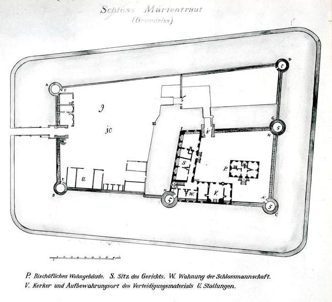 Grundriss Burg Marientraut Hanhofen, 1720